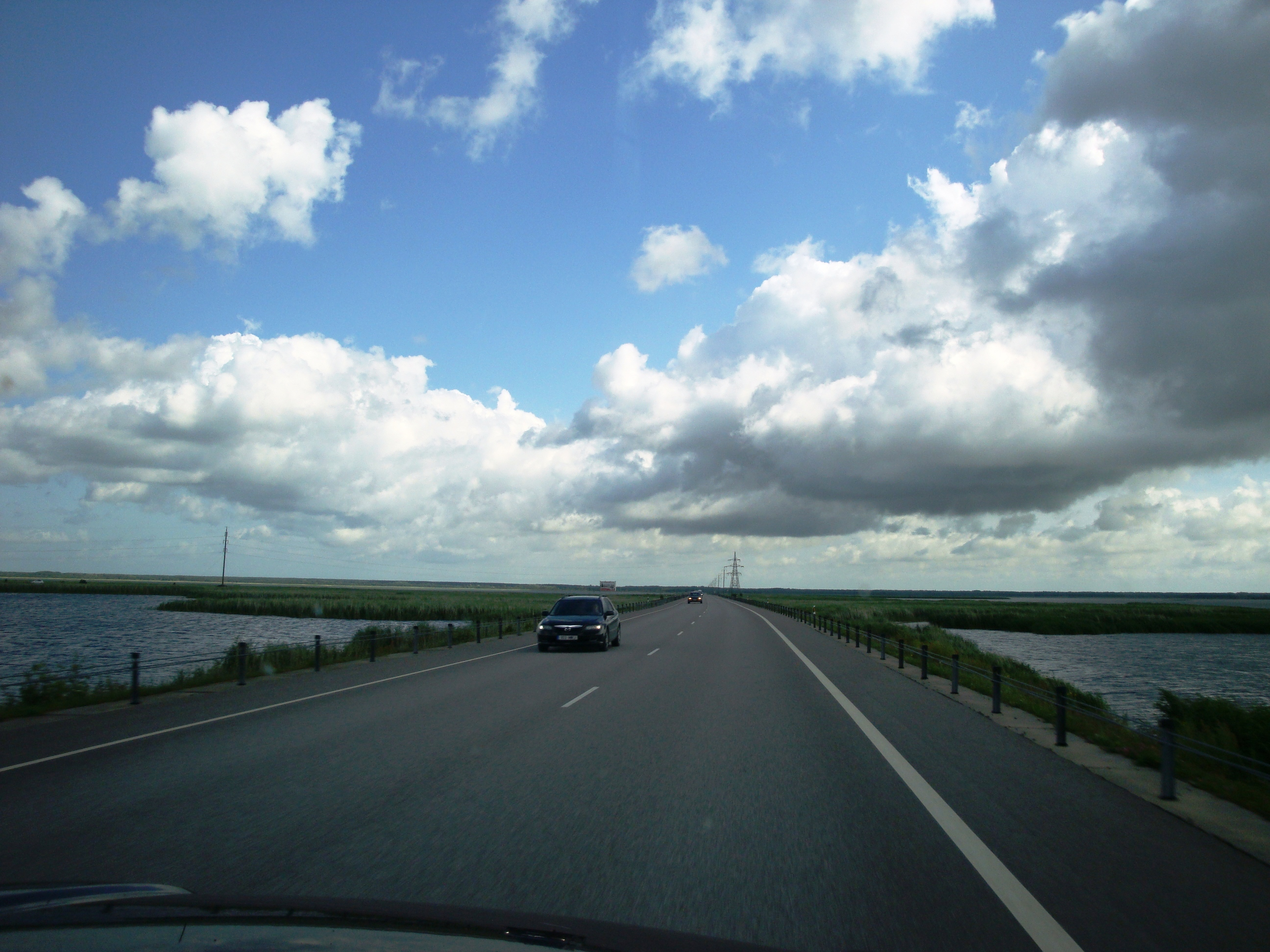 Dam between Muhu and Saremaa islands